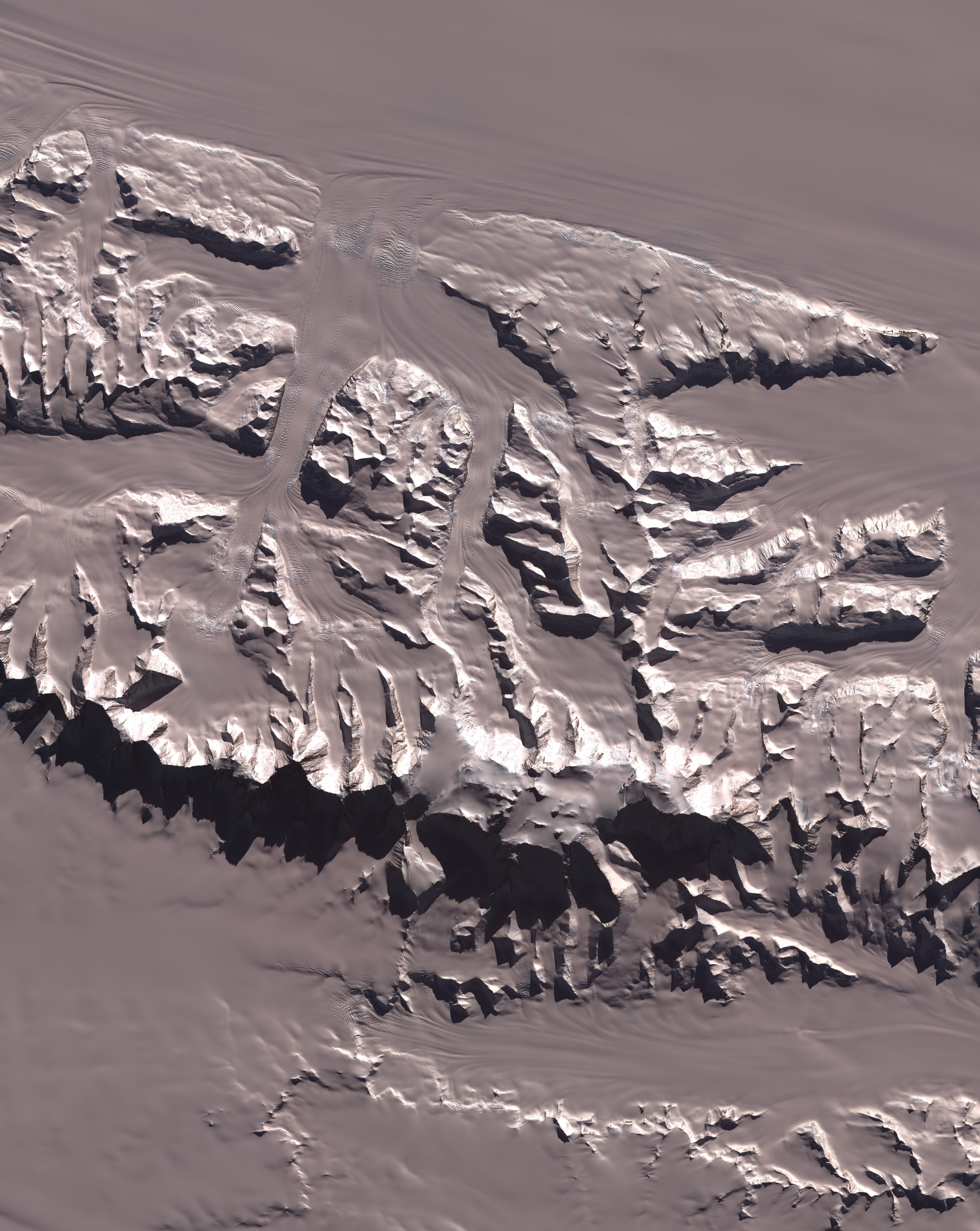 This false-color image of Vinson Massif was acquired by the Advanced Spaceborne Thermal Emission and Reflection Radiometer (ASTER), aboard NASA’s Terra satellite. The scene covers an area of 63 x 81 km (39 x 51 miles).